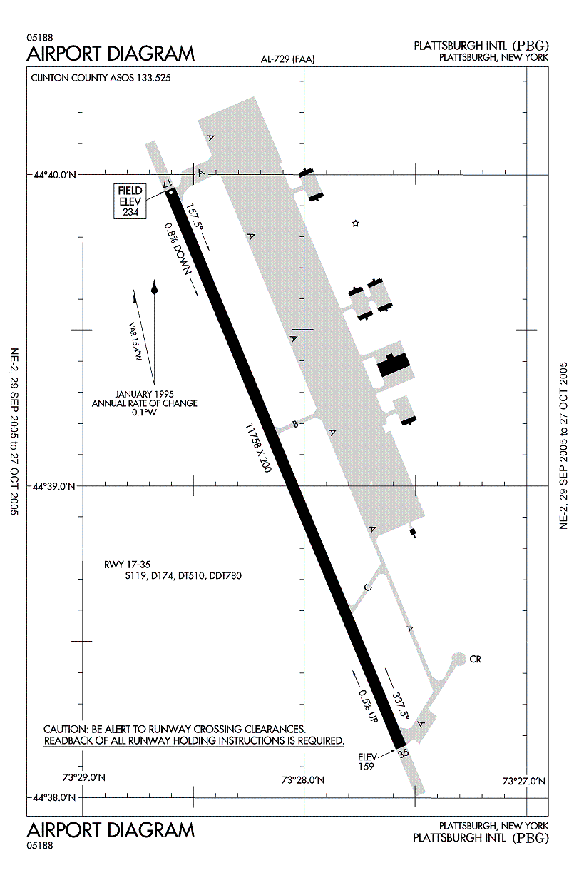 FAA airport diagram for Plattsburgh International Airport (PBG) in Plattsburgh, New York, United States.